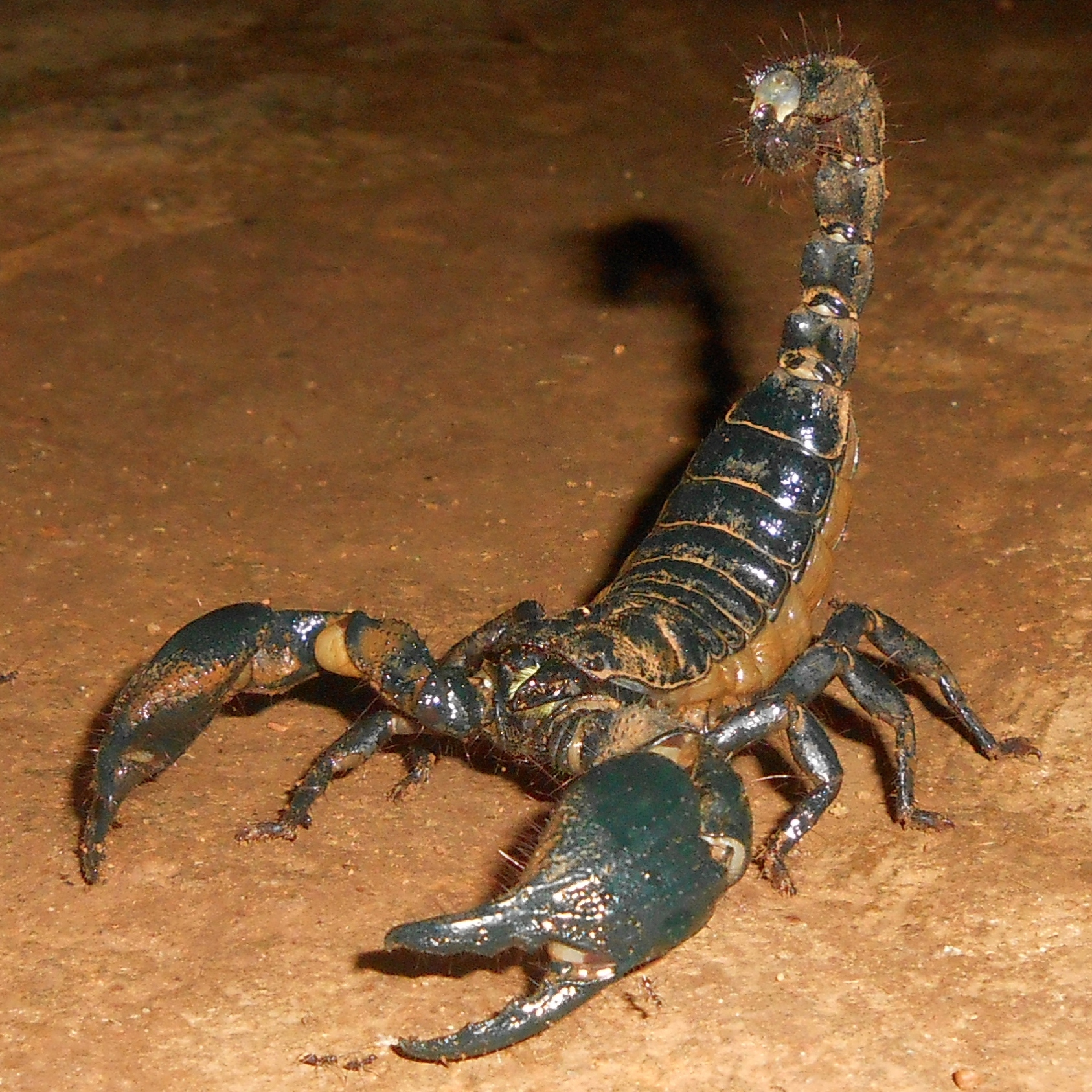 A Giant Forest Scorpion from the Western ghats in Karnataka, India